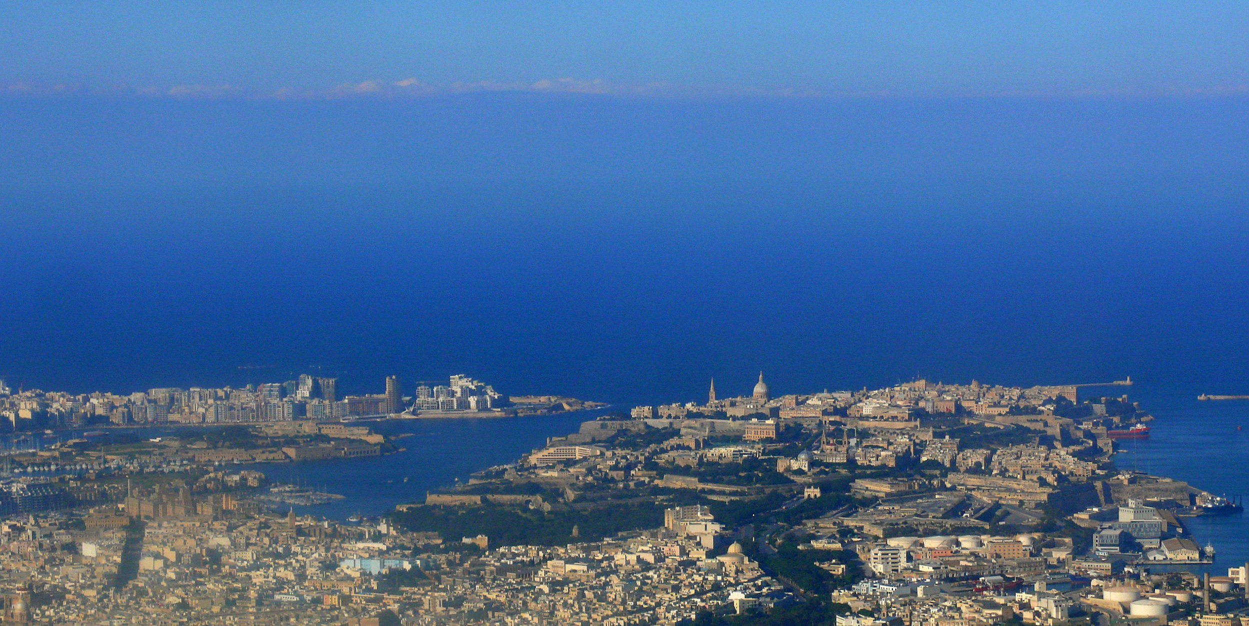 Aerial view of Malta harbours region looking towards Sicily